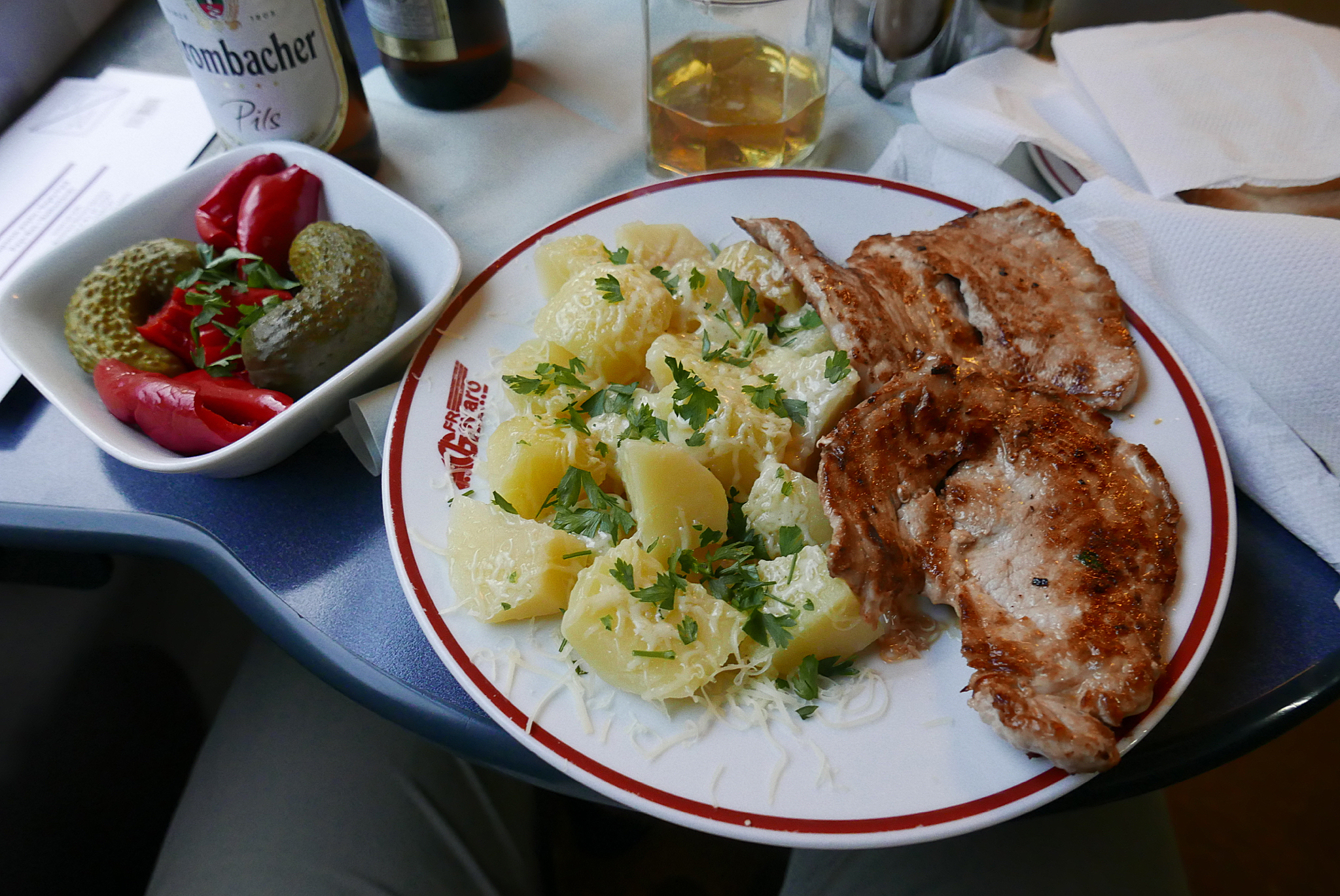 Meal served in the Romanian dining car in the consist of EuroNight 472 "Ister" from Bucuresti to Budapest.